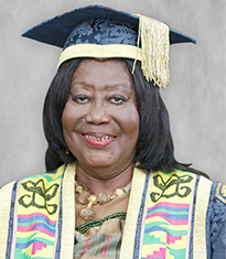 Image of the Chancellor Mrs. Mary Chinery-Hesse